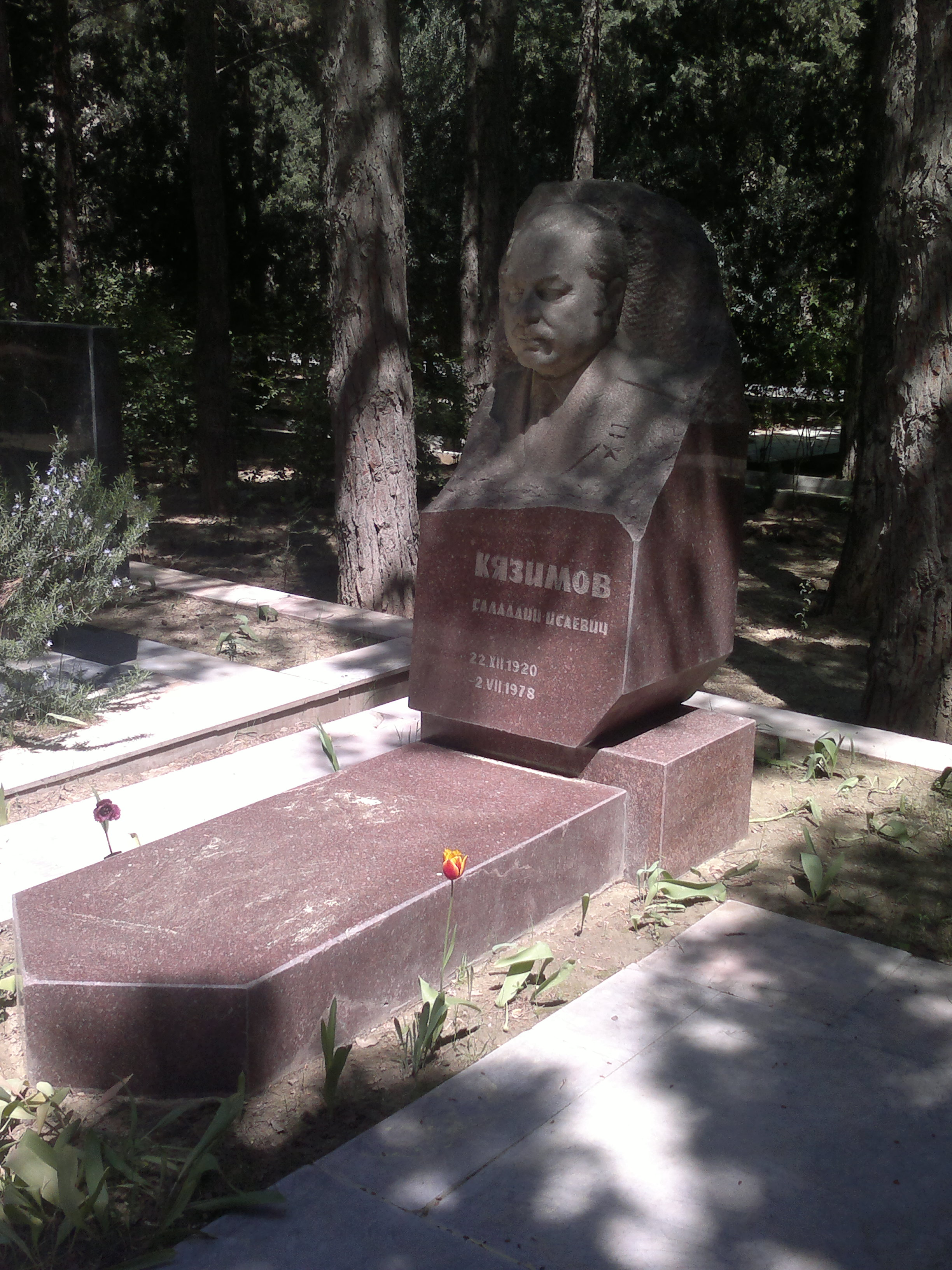 Burial of Salahaddin Kazimov at Alley of Honor (Azerbaijan).